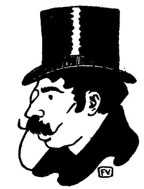 Portrait of Jean Moréas by Félix Vallotton from Le Livre des masques (vol. I, 1898) by Remy de Gourmont (1858-1916)